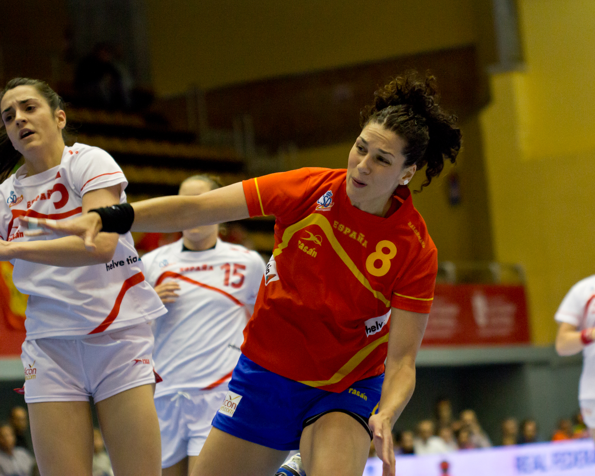 Last shot by Verónica Cuadrado with the Spain national handball team, at the Spain Handball All Star Game 2013, in San Sebastián de los Reyes, Madrid, Spain.